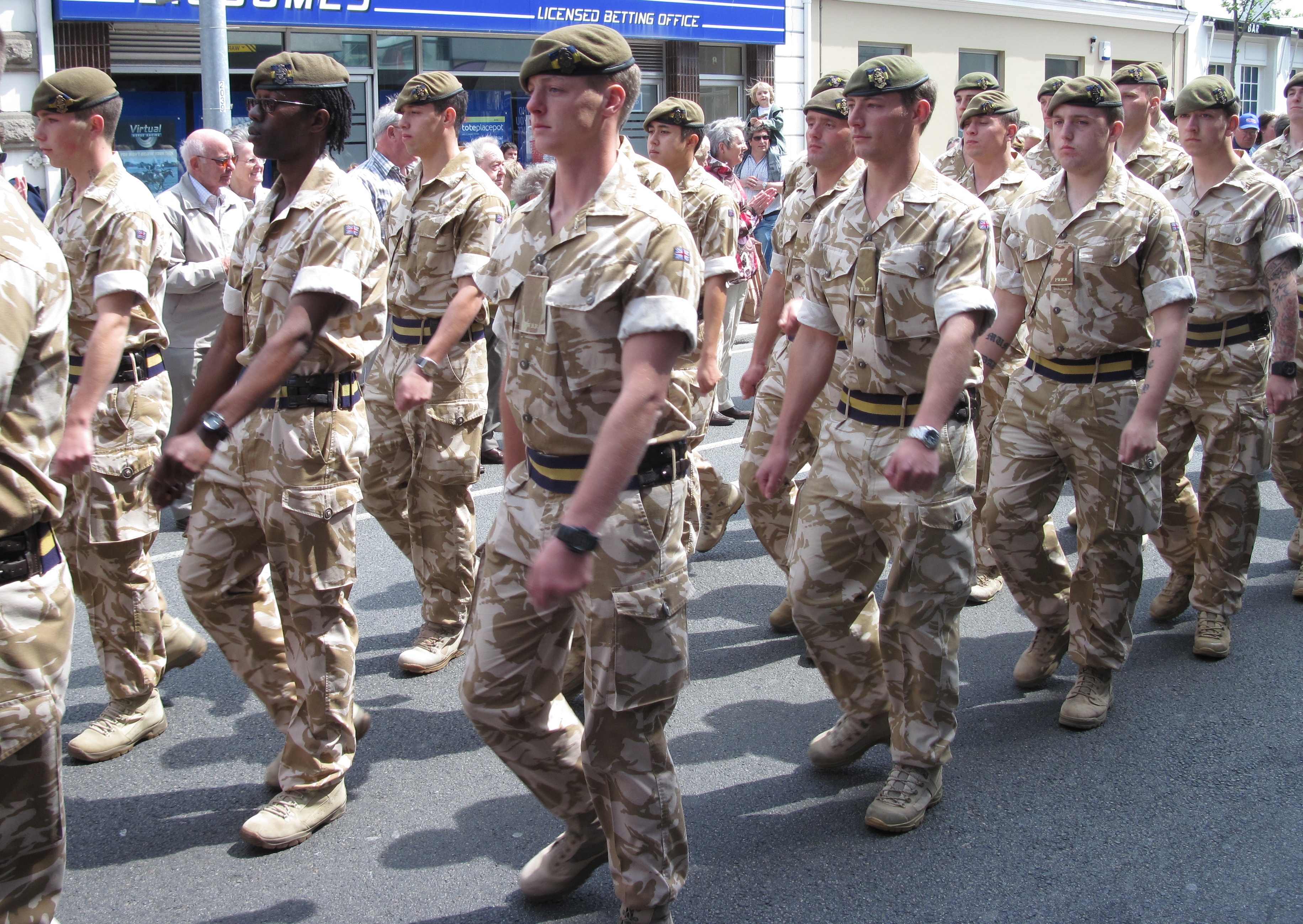 Liberation Day, 9 May 2010, Jersey